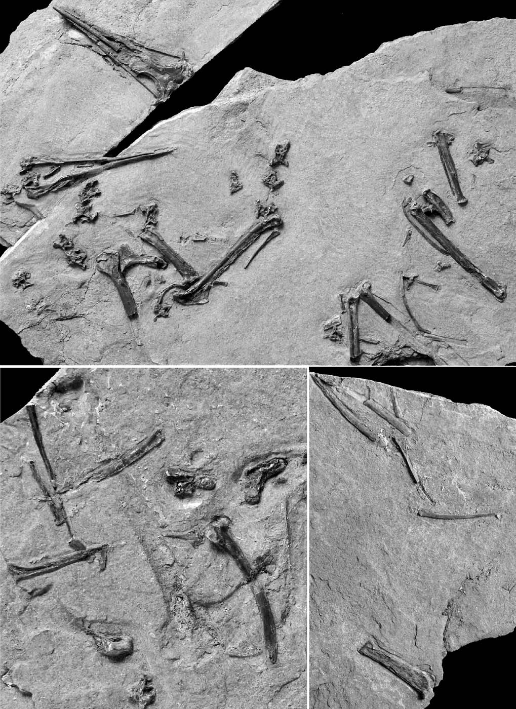 Partial disarticulated skeleton of the diomedeoidid bird Diomedeoides brodkorbi (Cheneval, 1995), MHNF 30877 from the early Oligocene of Rheinweiler, Germany (A); partial counterslab of MHNF 30877 (B); slab showing the proximal phalanx of the fourth digit and some ribs (C).